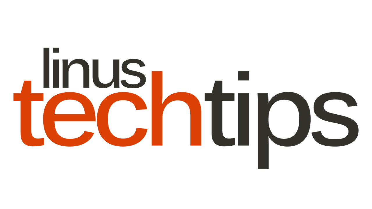 New Logo